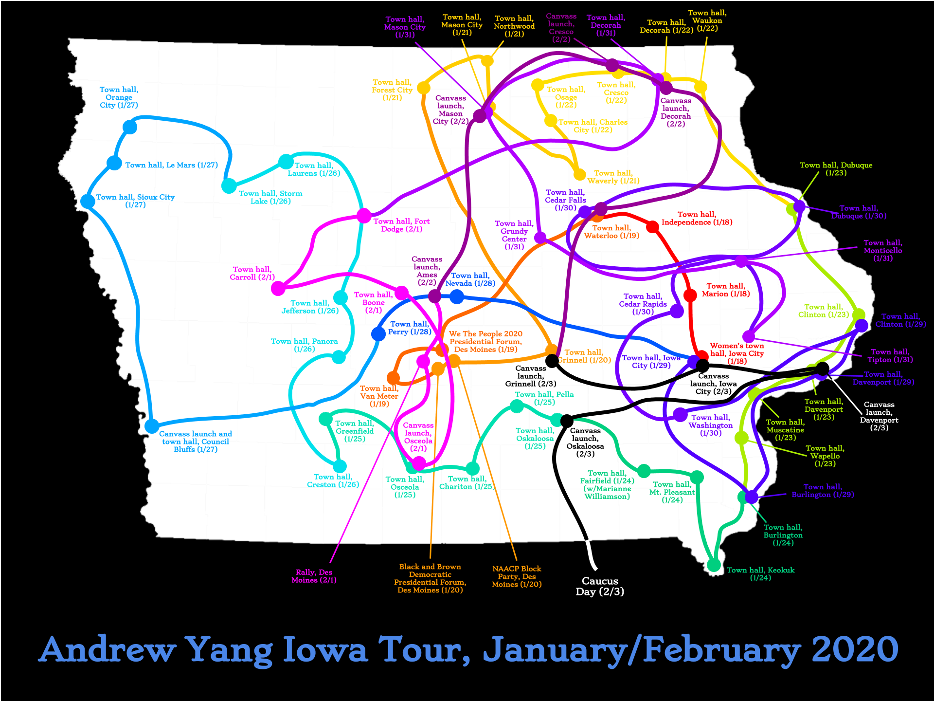 Andrew Yang spent 17 days in Iowa prior to the caucuses. This map shows the events he undertook during that time, including town halls, rallies, and canvass launches. It does not include televised interviews.